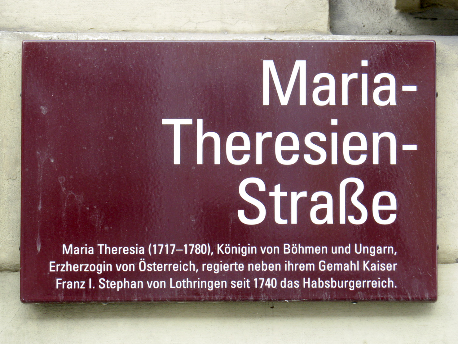 Street sign of Innsbruck, Austria, new type (replacing old type from 2009)